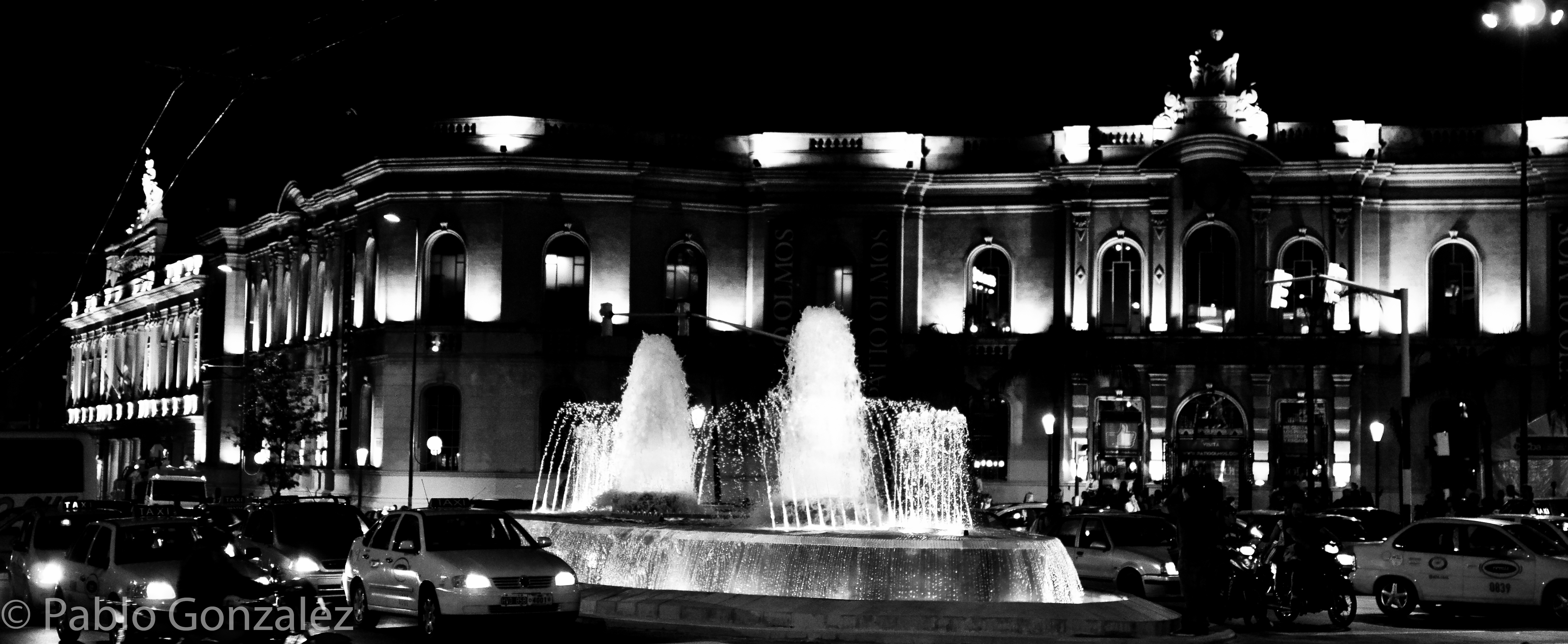 Patio Olmos shopping mall and fountain. Cordoba city, Argentina.